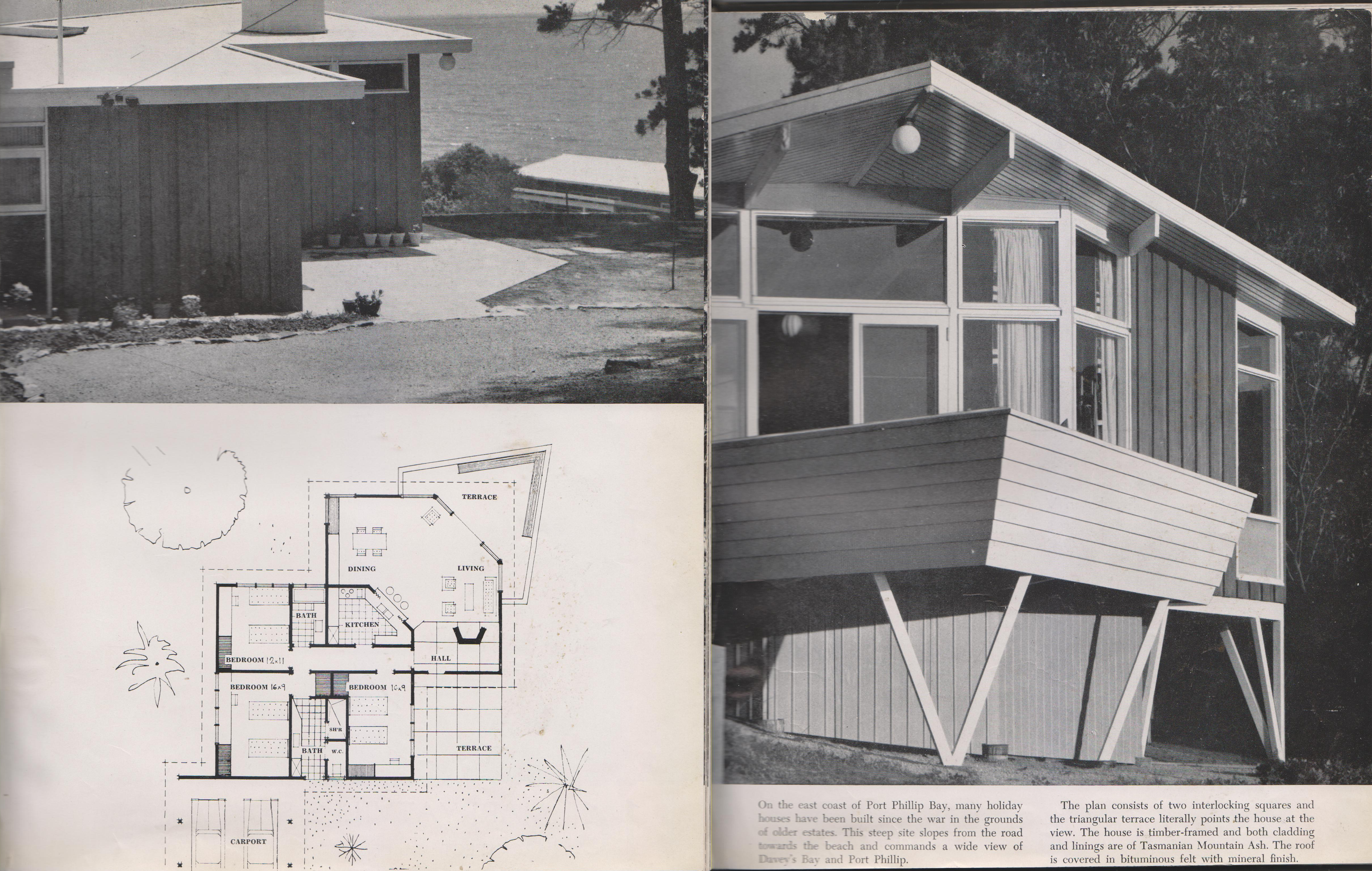 Holiday residence for G Raymond (Blue Peter), 21 Gulls Way, Frankston, 1956, designed by Rae Featherstone.